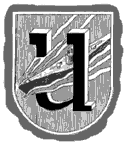 Emblem of 1st U-boat flotillia of Kriegsmarine